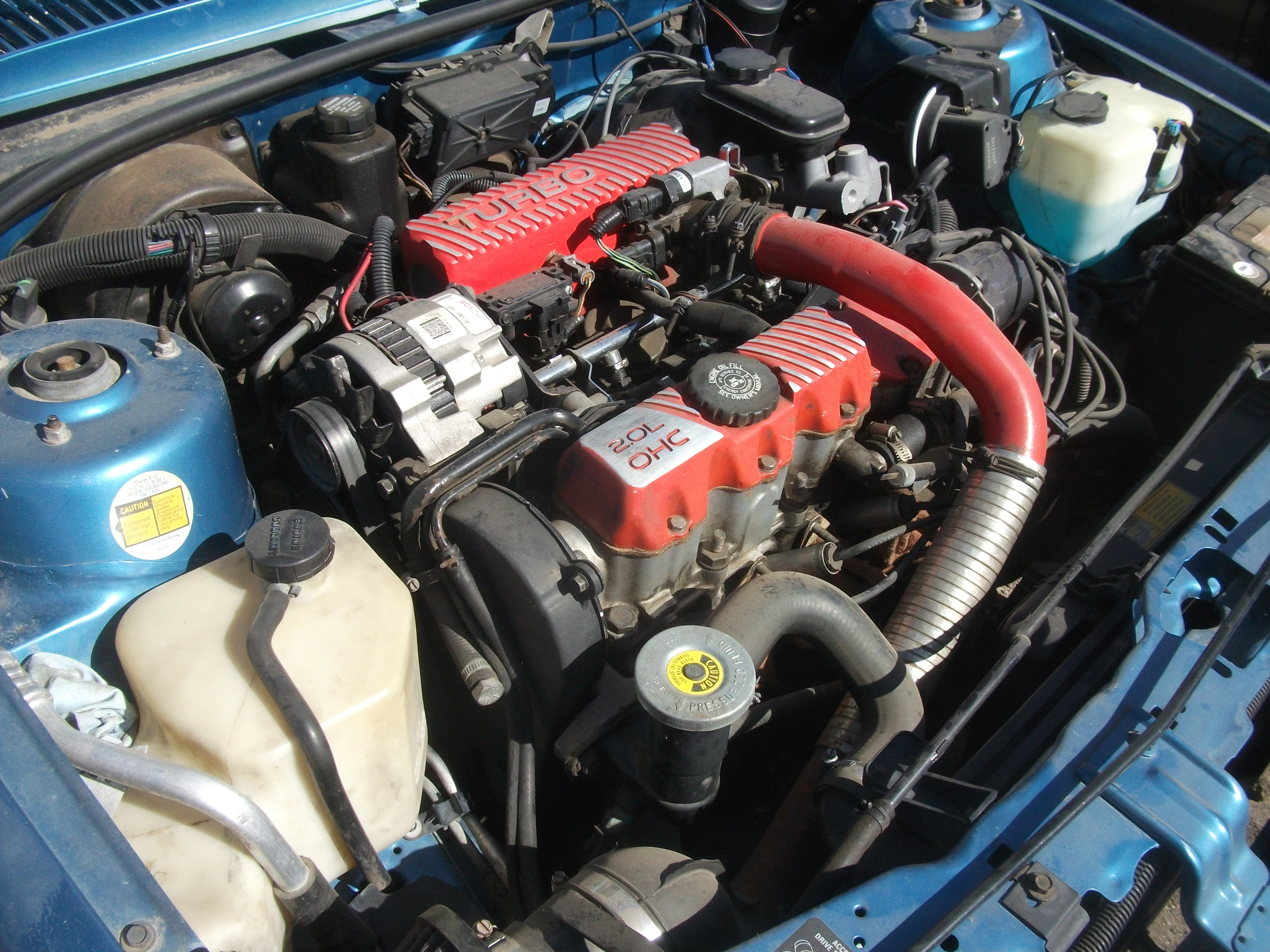 Pontiac Sunbird GT with a turbocharged four cylinder engine. 165 hp from the 2.0L LT3 engine.